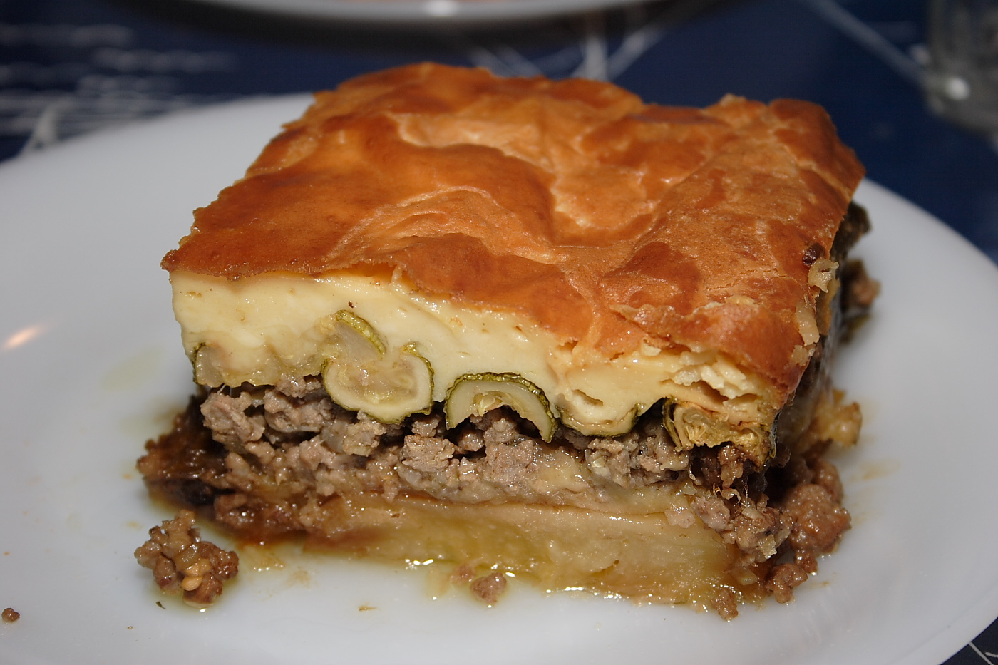 Moussaka with zucchini and potatoes